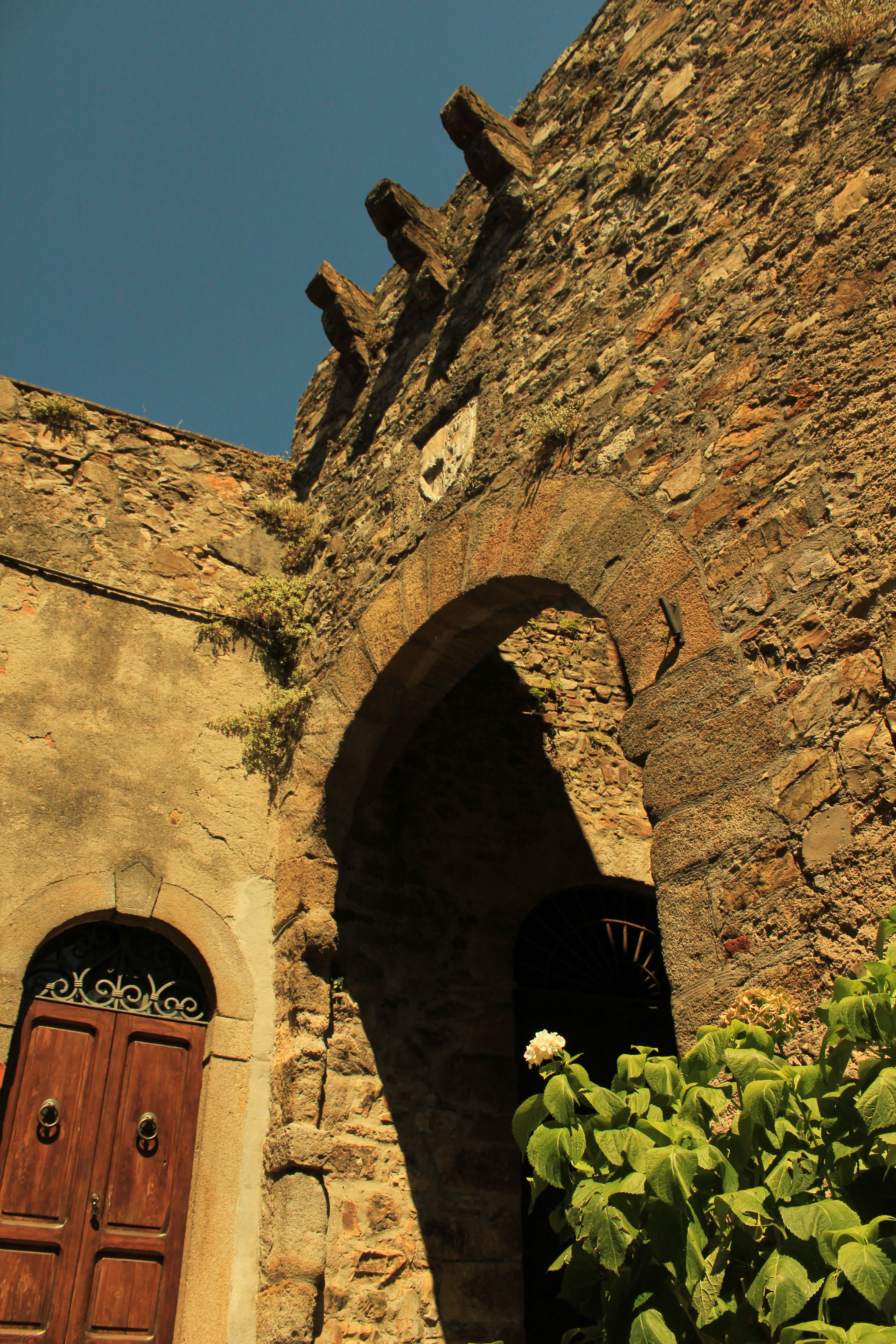 Old gate of Tatti Walls